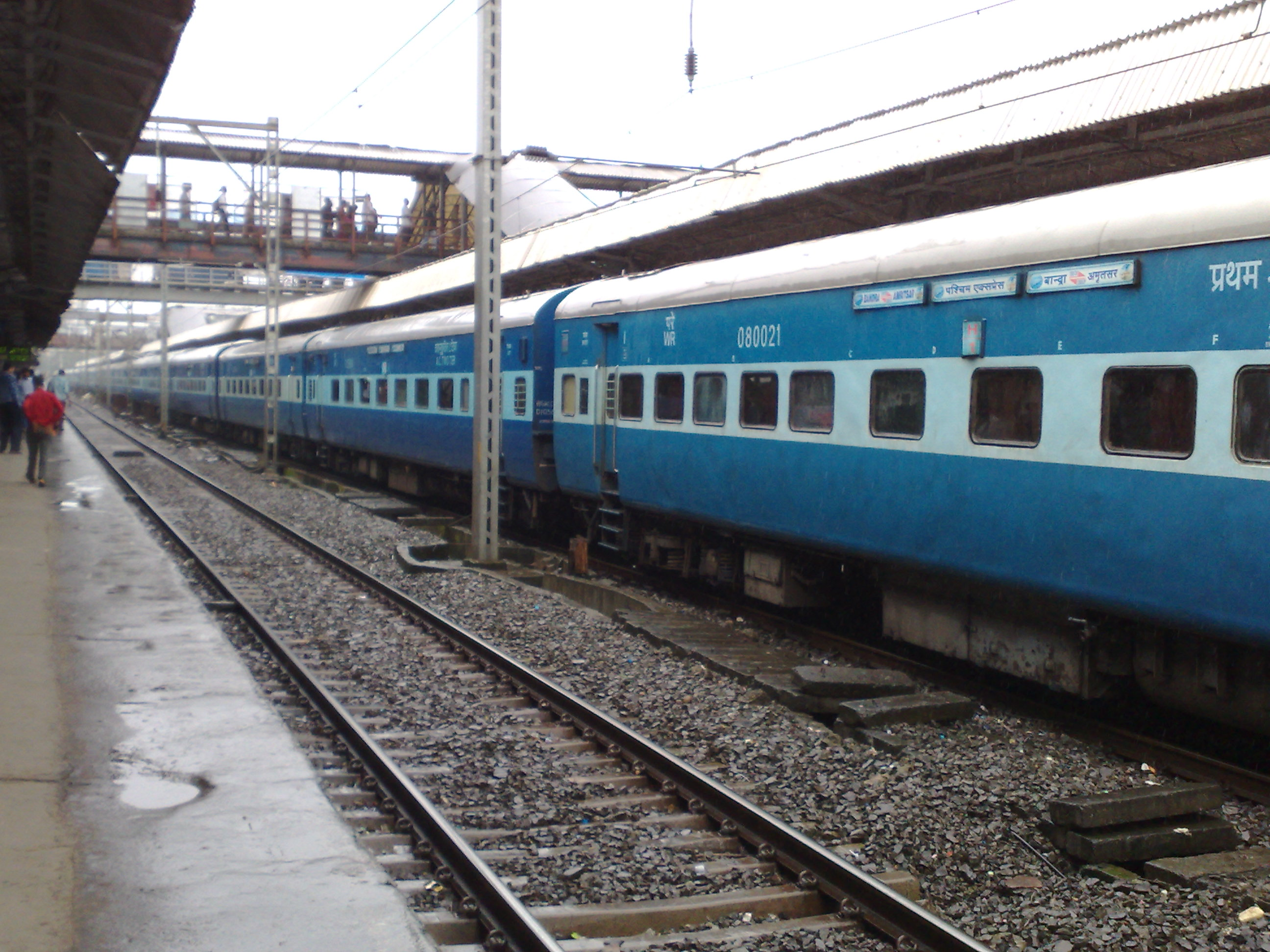 12925 Paschim Express at Borivali railway station